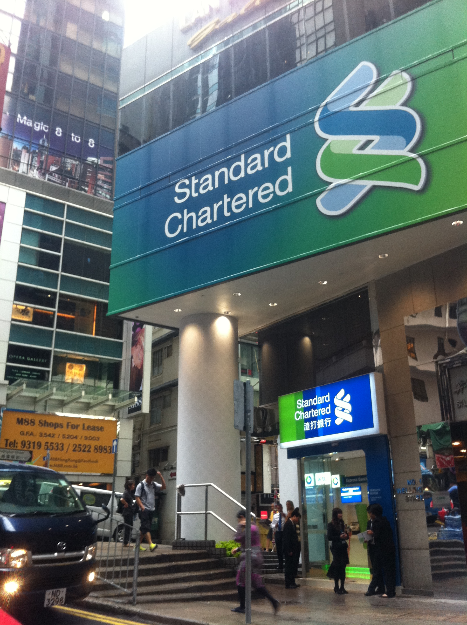 中環香港渣打銀行雲咸街